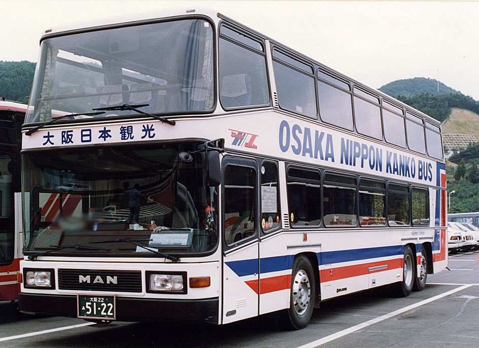 MAN 22.280 HOCR coach in Japan. Osaka Nippon Kanko.